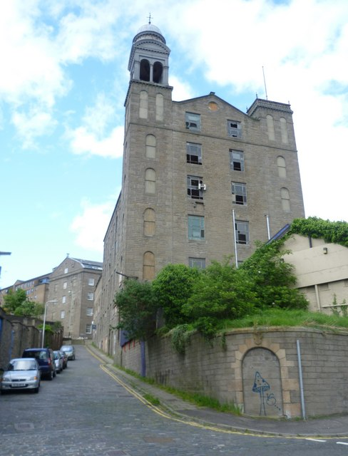 Lower Dens Mill, St. Roques Lane